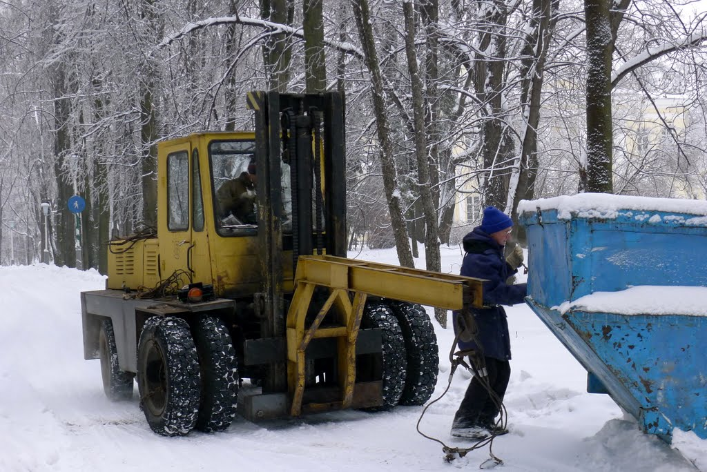 Forklift in Moscow, Russia.